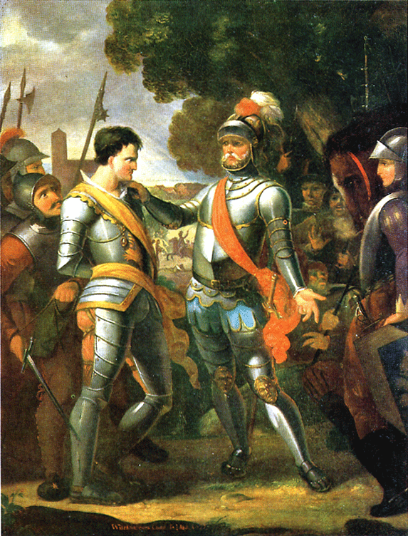 Otto tom Brok is, after the Battle on the Wild Fields, brought captive in front of Focko Ukena in 1427 (History painting)